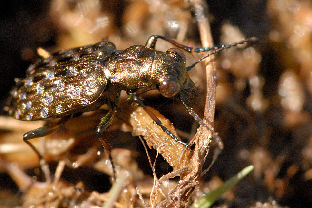 Elaphrus riparius from Commanster, Belgian High Ardennes .